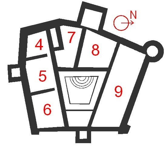 Plan of Fénis castle in Aosta Valley